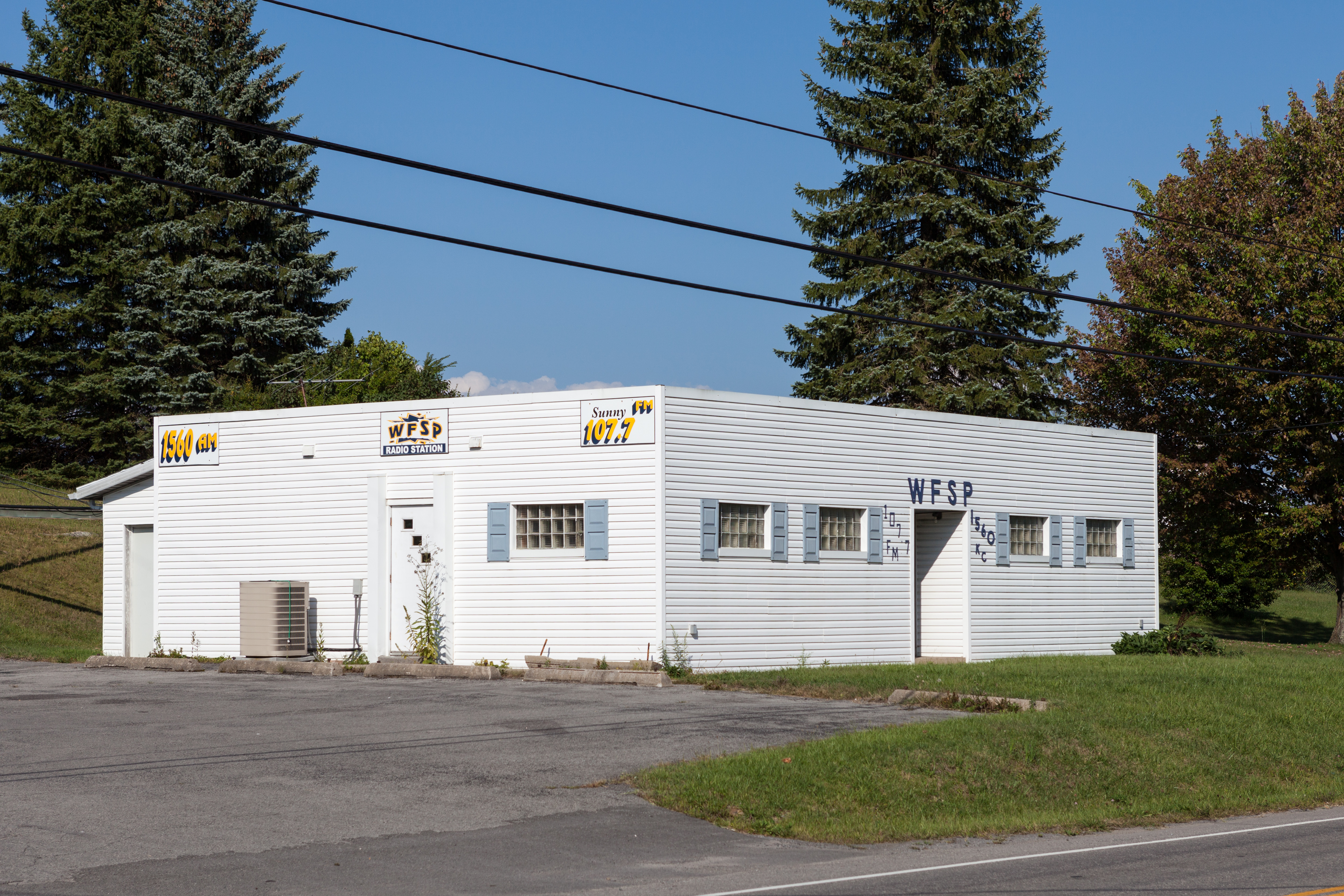 WFSP and WFSP-FM studio on West Virginia Route 7 near Kingwood, West Virginia. Looking northeast.